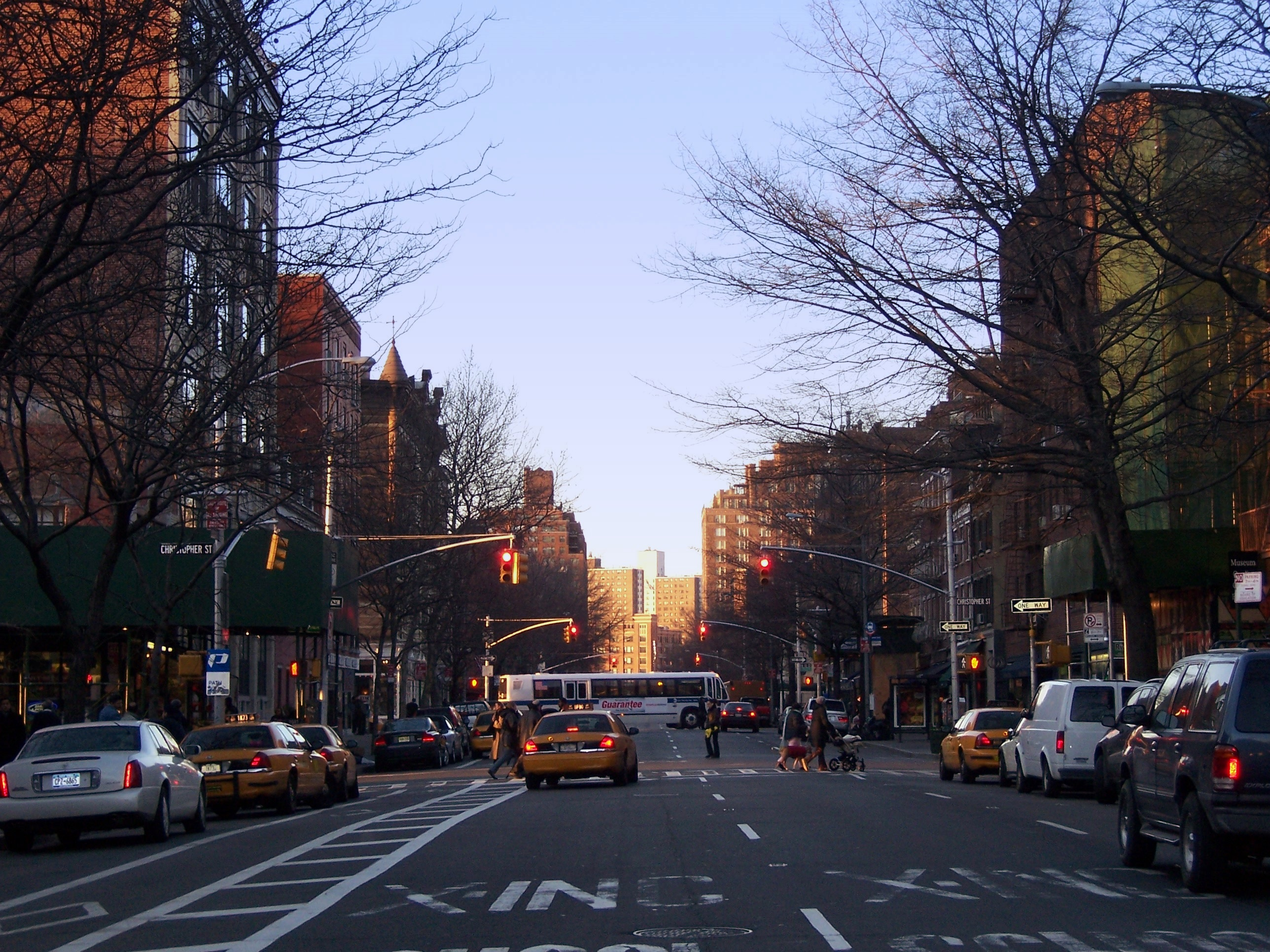 Looking north on Hudson Street from Grove Street. Self-taken on January 7, 2006.